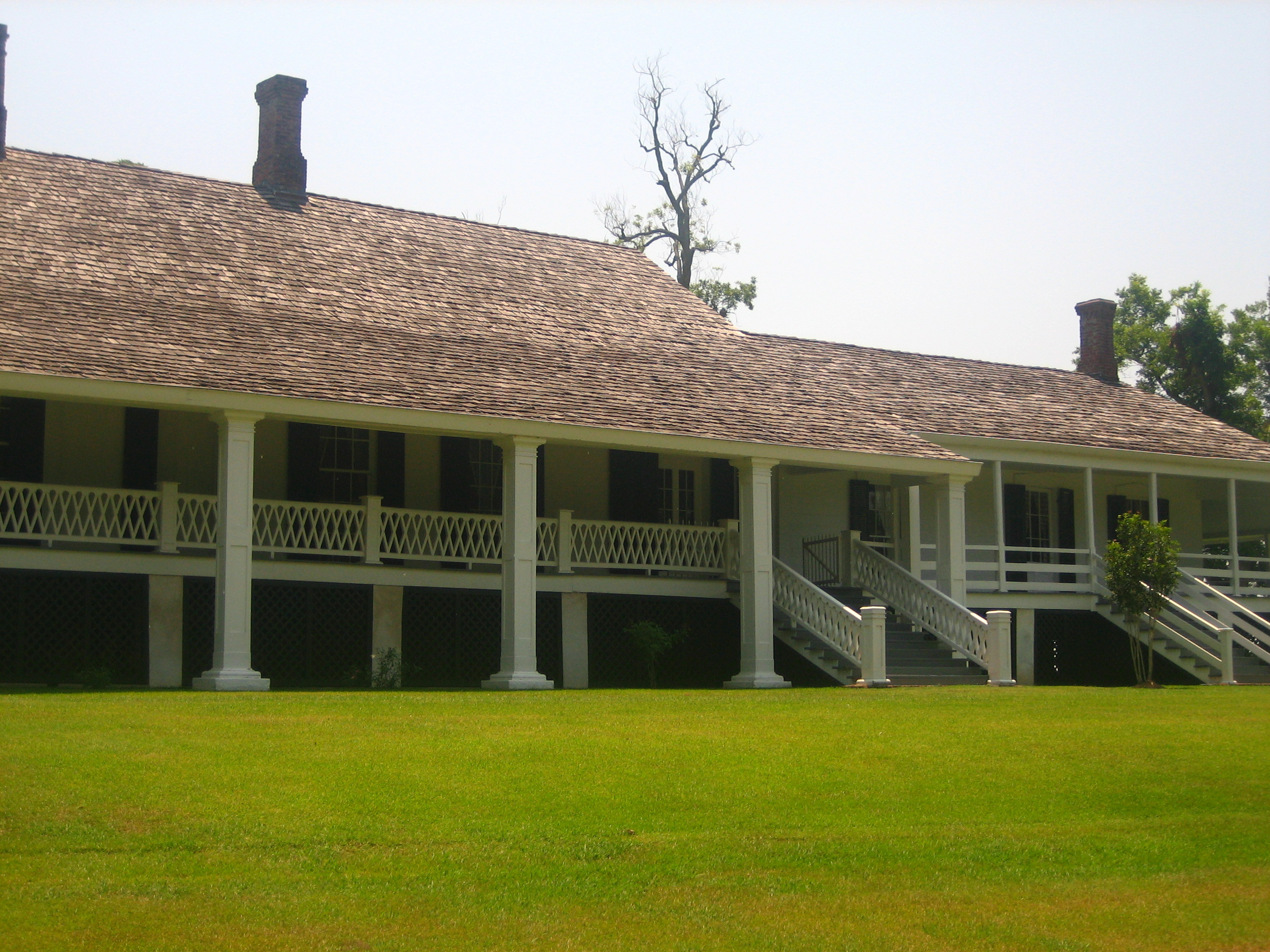 I took photo on Aug. 2, 2008.Billy Hathorn (talk) 01:36, 18 August 2008 (UTC)